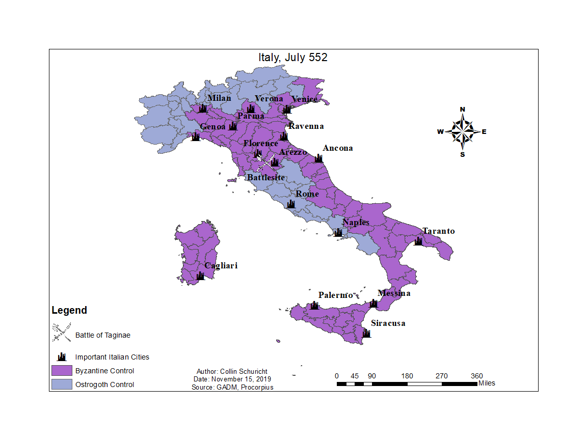 This map shows the political situation in Italy during July of 552.It also details the historic Battle of Taginae that saw the Ostrogothic Kingdom cease to exist. The map shows the different control zones of the two opposing factions as well as the major cities of the Italian peninsula as well as Sicily and Sardinia.